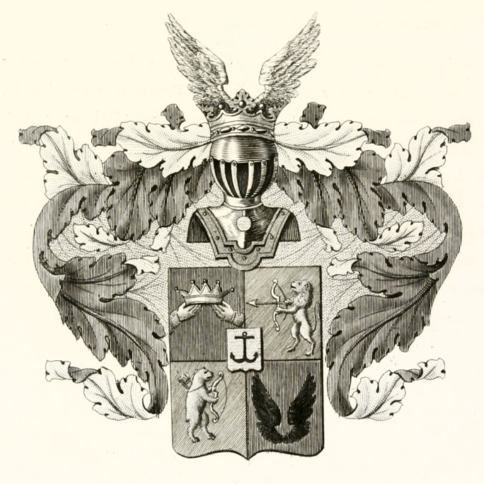 COA Božič